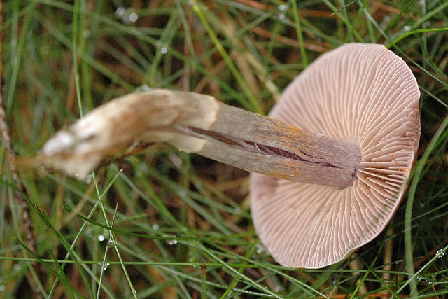 Cortinarius alboviolaceus from Commanster, Belgium. If you think this is a different taxon, please contact James Lindsey.